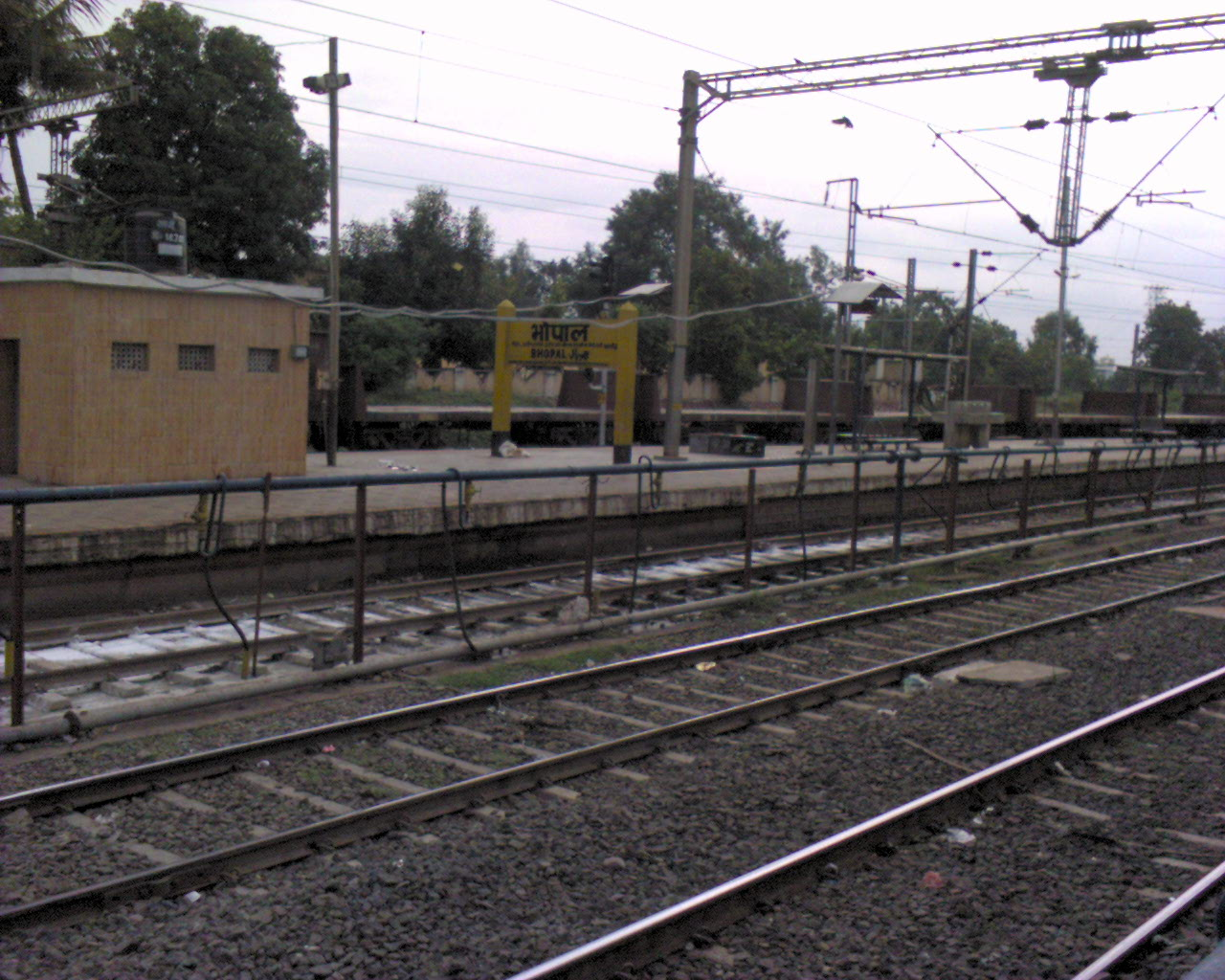 Bhopal Railway Station